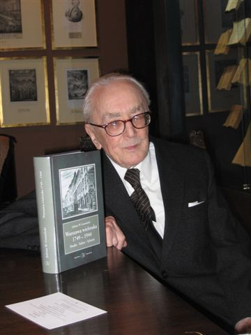 Juliusz Wiktor Gomulicki (1909-2006), Polish writer, essayist, editor and translator